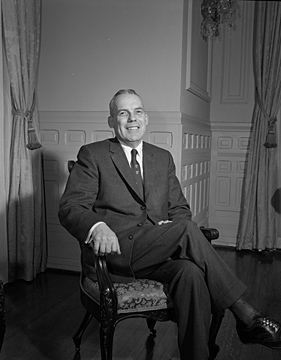 1958 Agricultural Advisory Committee member, Honorable L.Y. Ballentine, Commissioner, State Dept. of Agriculture; Constitutional Officer; NC Lt. Governor 1945-1949; veteran farm leader and active dairyman, Wake County. Photo by Buchannan. From Conservation and Development Department, Travel and Tourism Division photo files, State Archives of North Carolina.